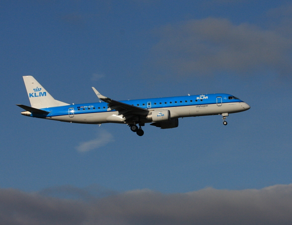 ERJ190 owned by KLM Cityhopper Reg PH-EZG